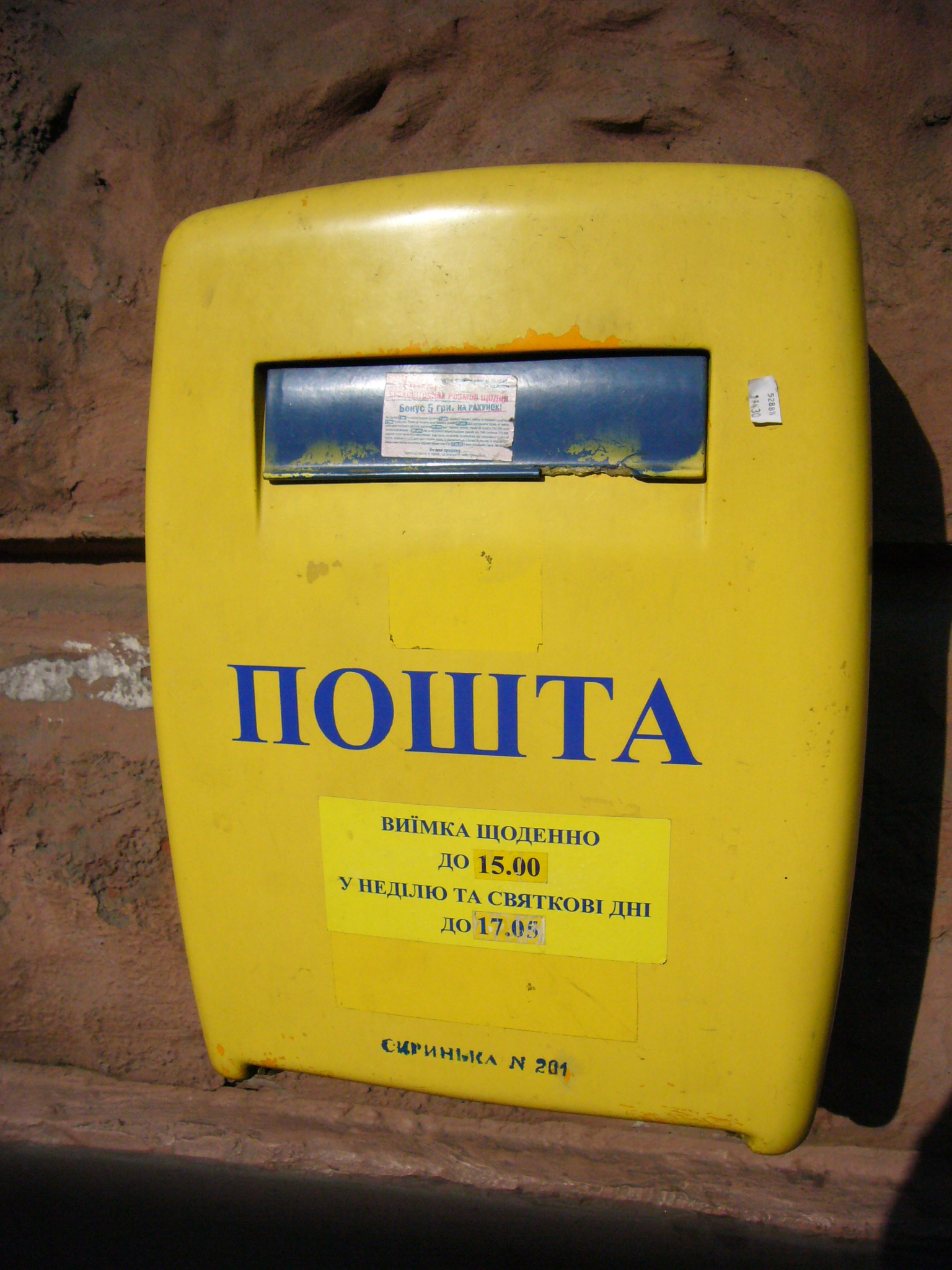 Mailbox of Ukrainian Post near Railway Station of Dnipropetrovsk, Ukraine